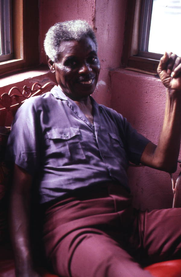 Local call number: FS864080 Title: Songwriter Charlie "Hoss" Singleton: Jacksonville, Florida Date: August 9, 1985 Photographer: David Alan Taylor Physical descrip: 1 slide - col. Series Title: Folklife Collection Repository: State Library and Archives of Florida, 500 S. Bronough St., Tallahassee, FL 32399-0250 USA. Contact: 850.245.6700. Persistent URL